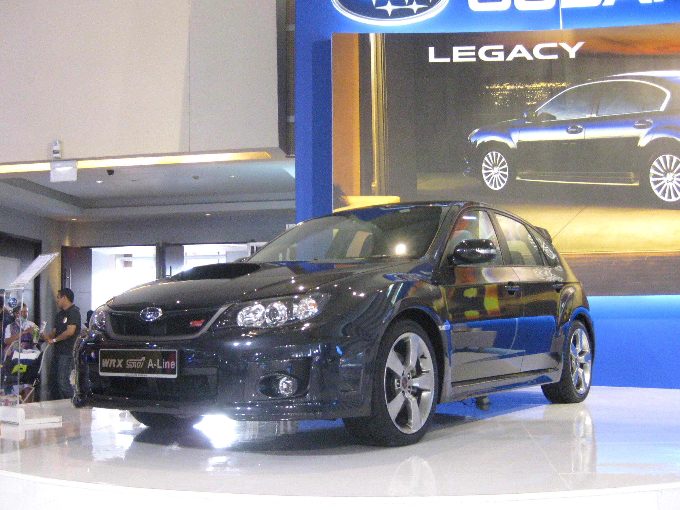 2011 Subaru Impreza WRX STI A-Line (GR), photographed at the 2011 Indonesia International Motor Show in Jakarta.